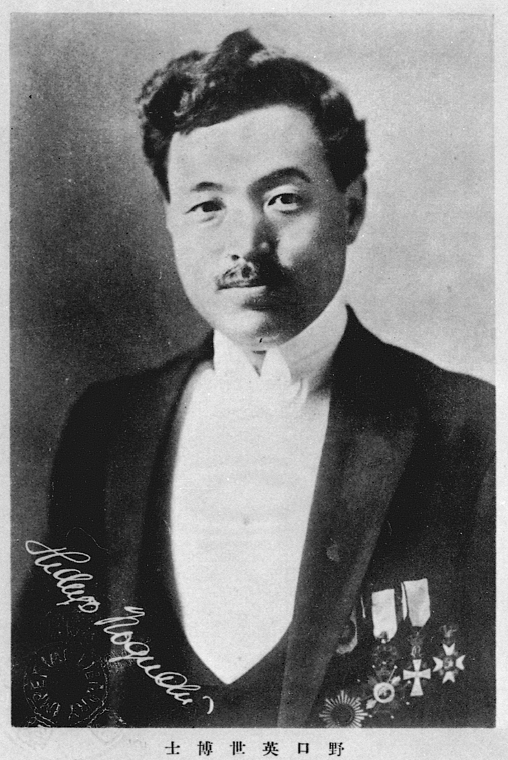 Portrait of Noguchi Hideyo (野口英世, 1876 – 1928)